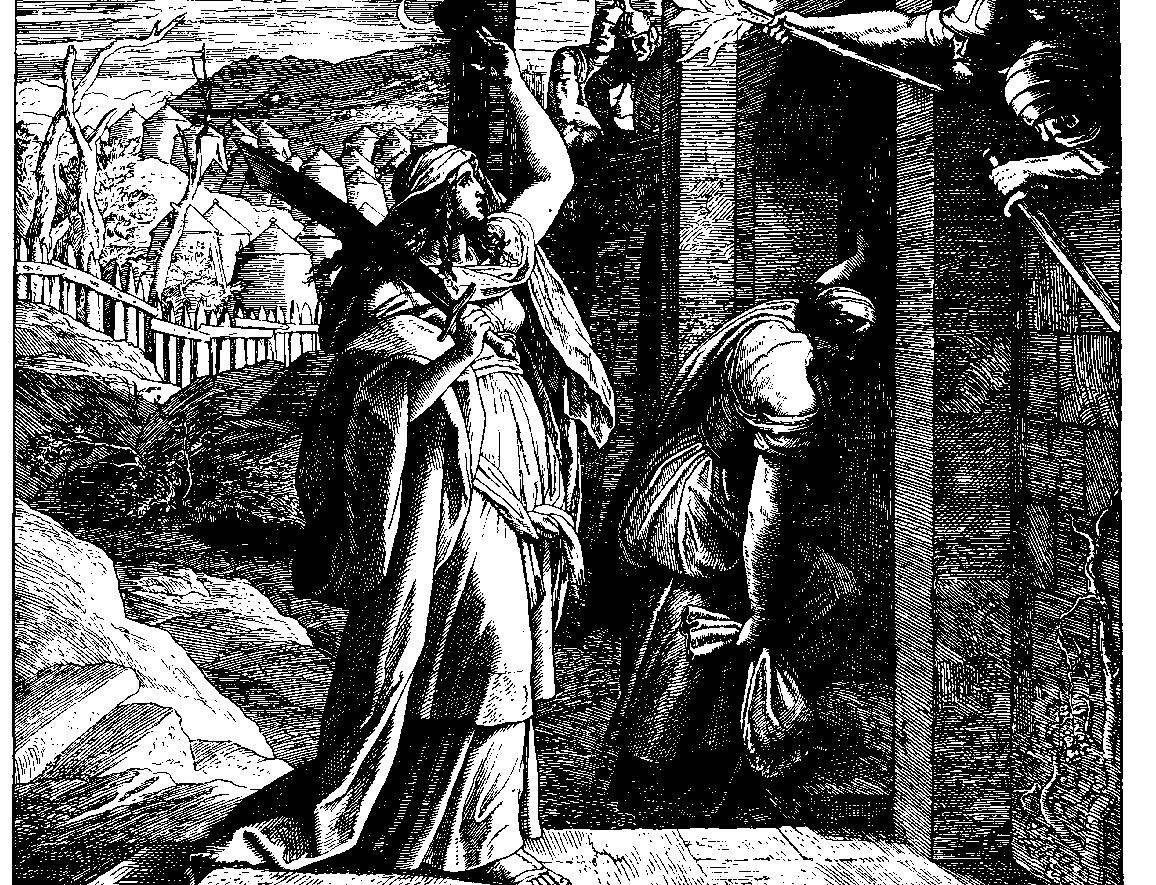 Woodcut for "Die Bibel in Bildern", 1860.